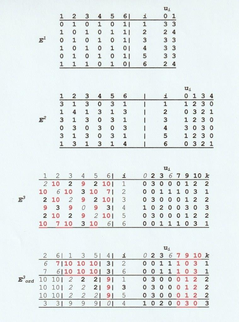 Identification of graphs by exponentation the adjacency matrix